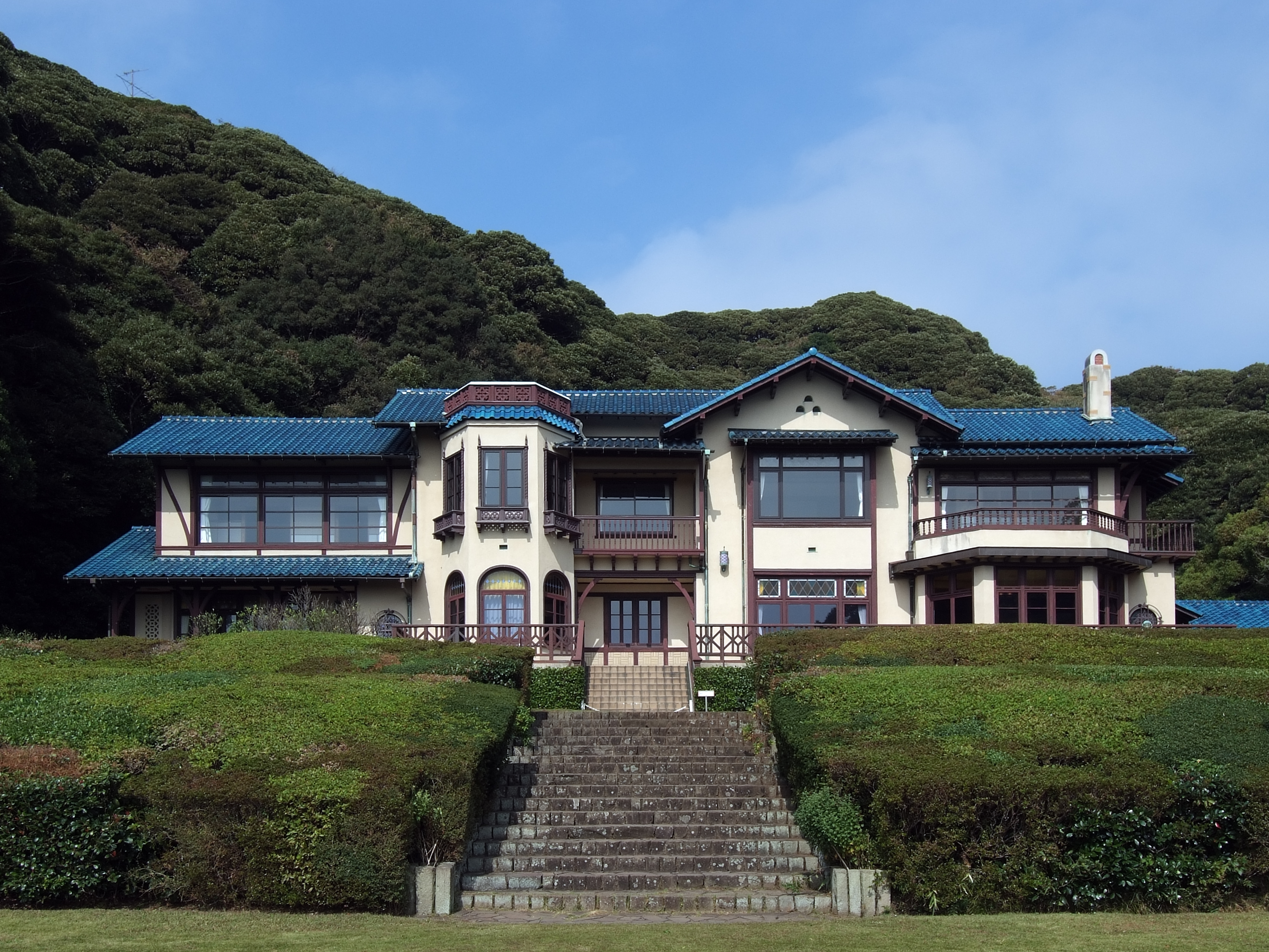 Kamakura Museum of Literature, at Kamakura Kanagawa Japan.